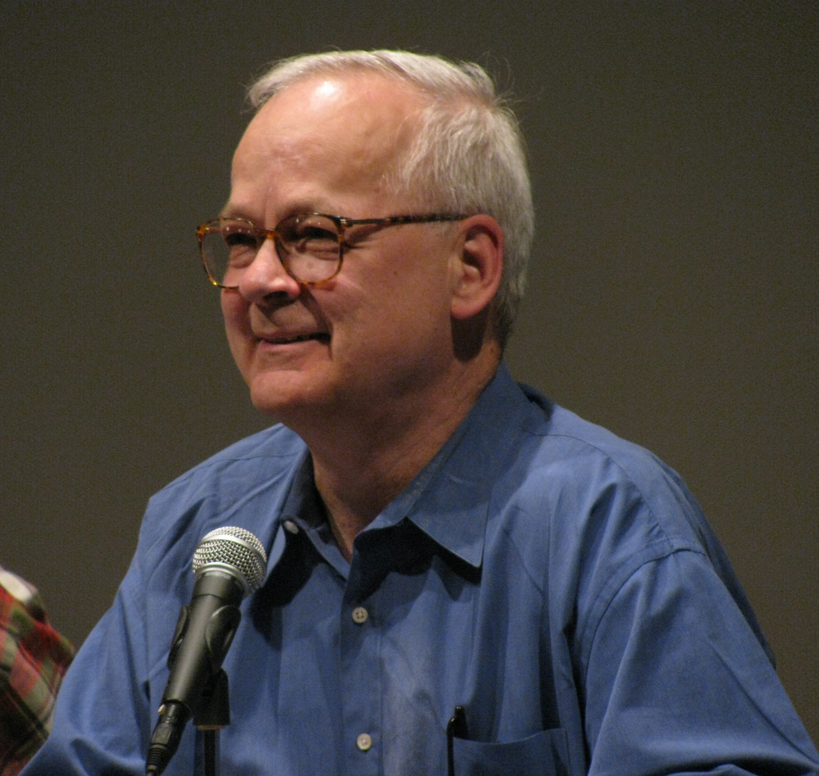 Tony Conrad at the Celebration of the 35th Anniversary of the Founding of Media Study (University at Buffalo)